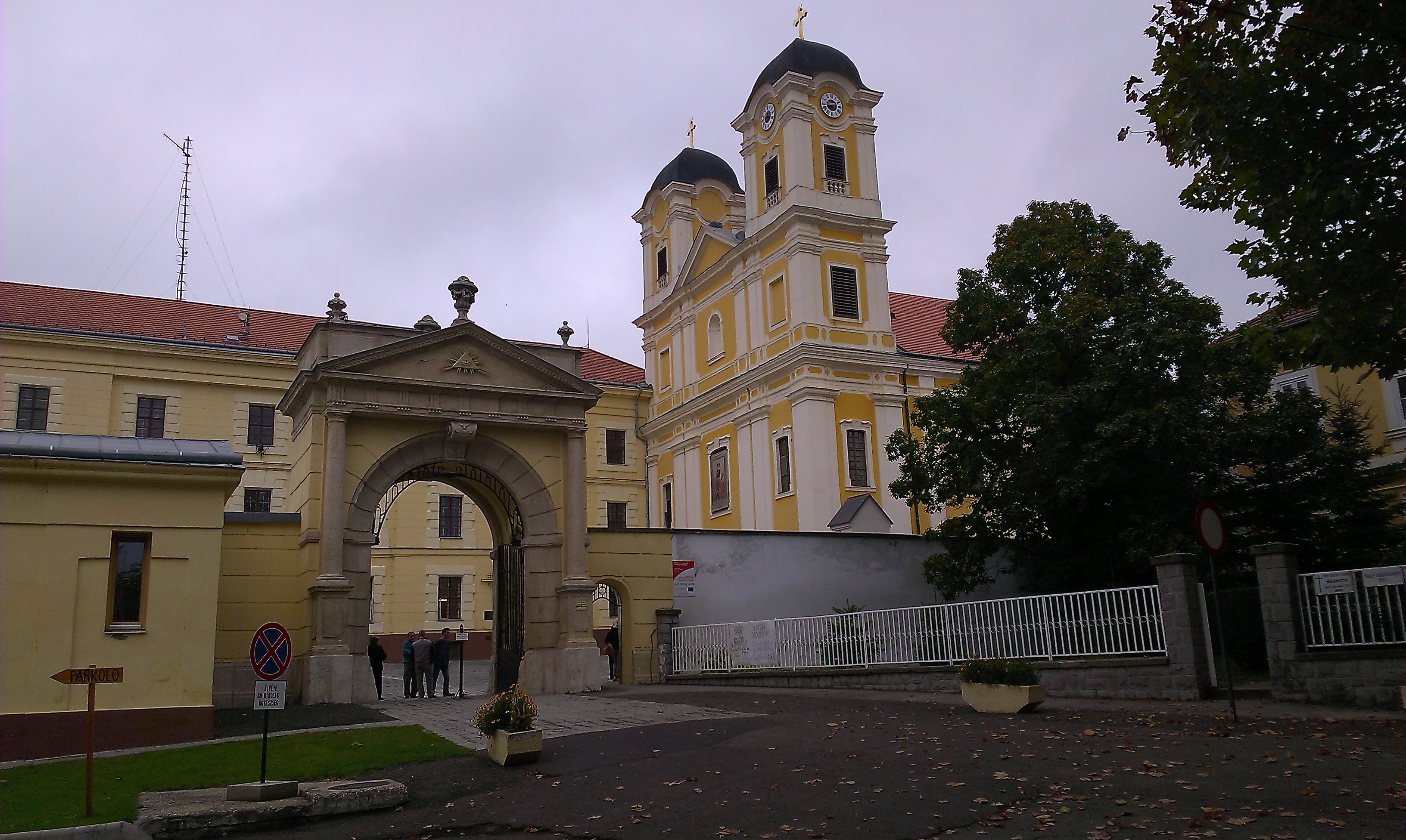 Noble Lady of the Hungarians Basilica in Márianosztra, Hungary.